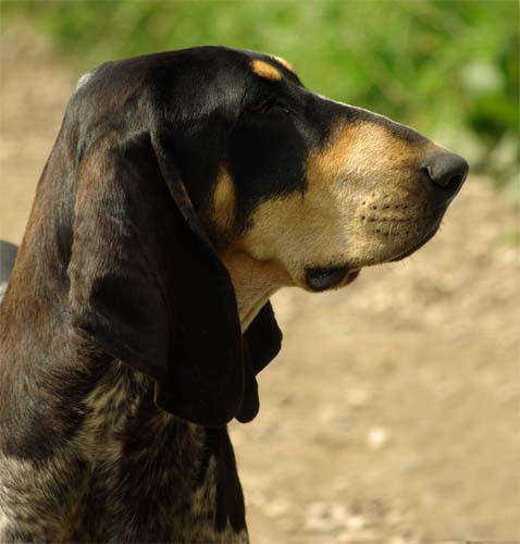 Small Blue Gascony Hound, female "Cita z Beckova" from kennel "Le Bleu Cardinalis FCI", Poland. The owner - Katarzyna Bujko